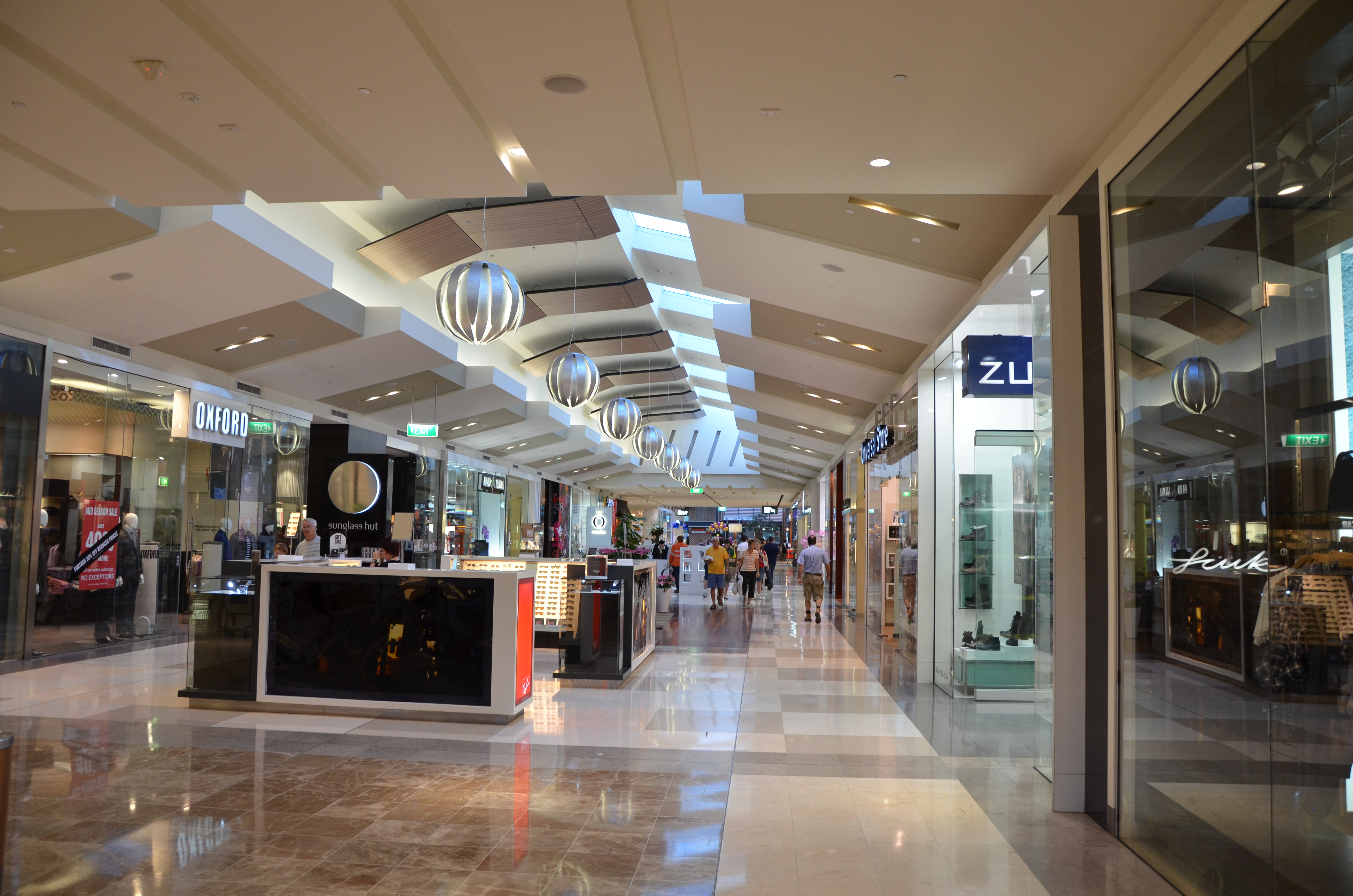 Chermside Shopping Centre.